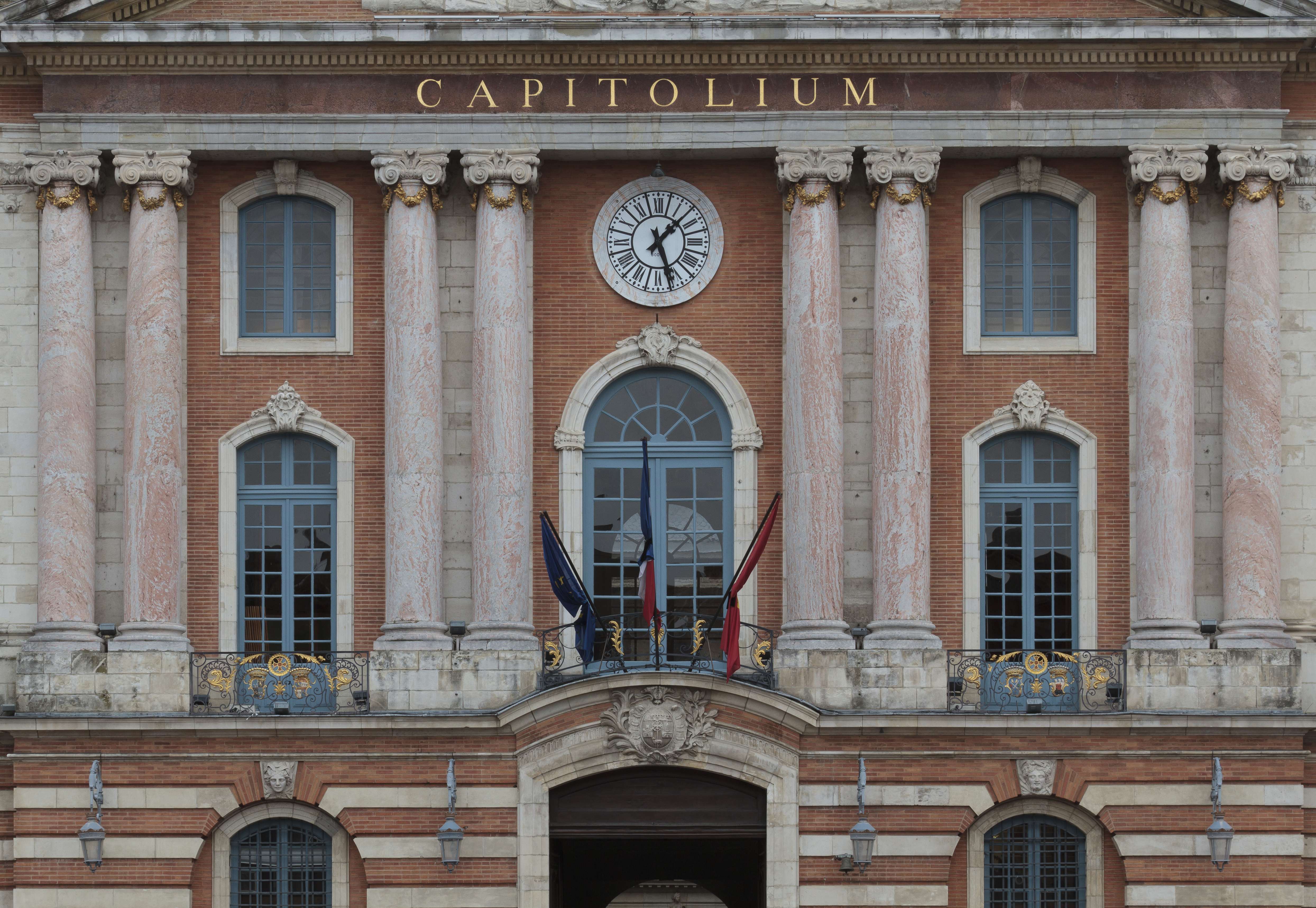 Aftermath of the 2012 Midi-Pyrénées shootings, flags of Capitole de Toulouse are not flying (half-mast?)